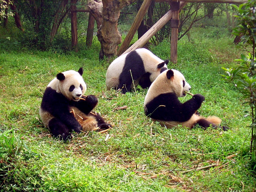 Giant Panda (Ailuropoda melanoleuca "black-and-white cat-foot") at Chengdu's Giant Panda Breeding Research Base.